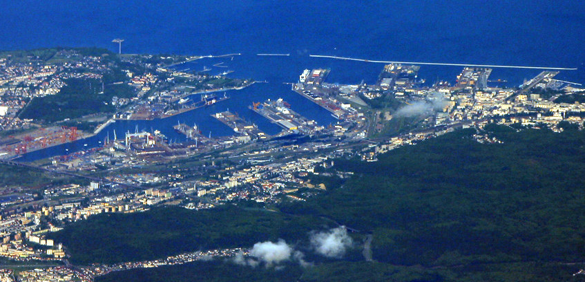 Gdynia, Poland. Aerial view of the seaport.